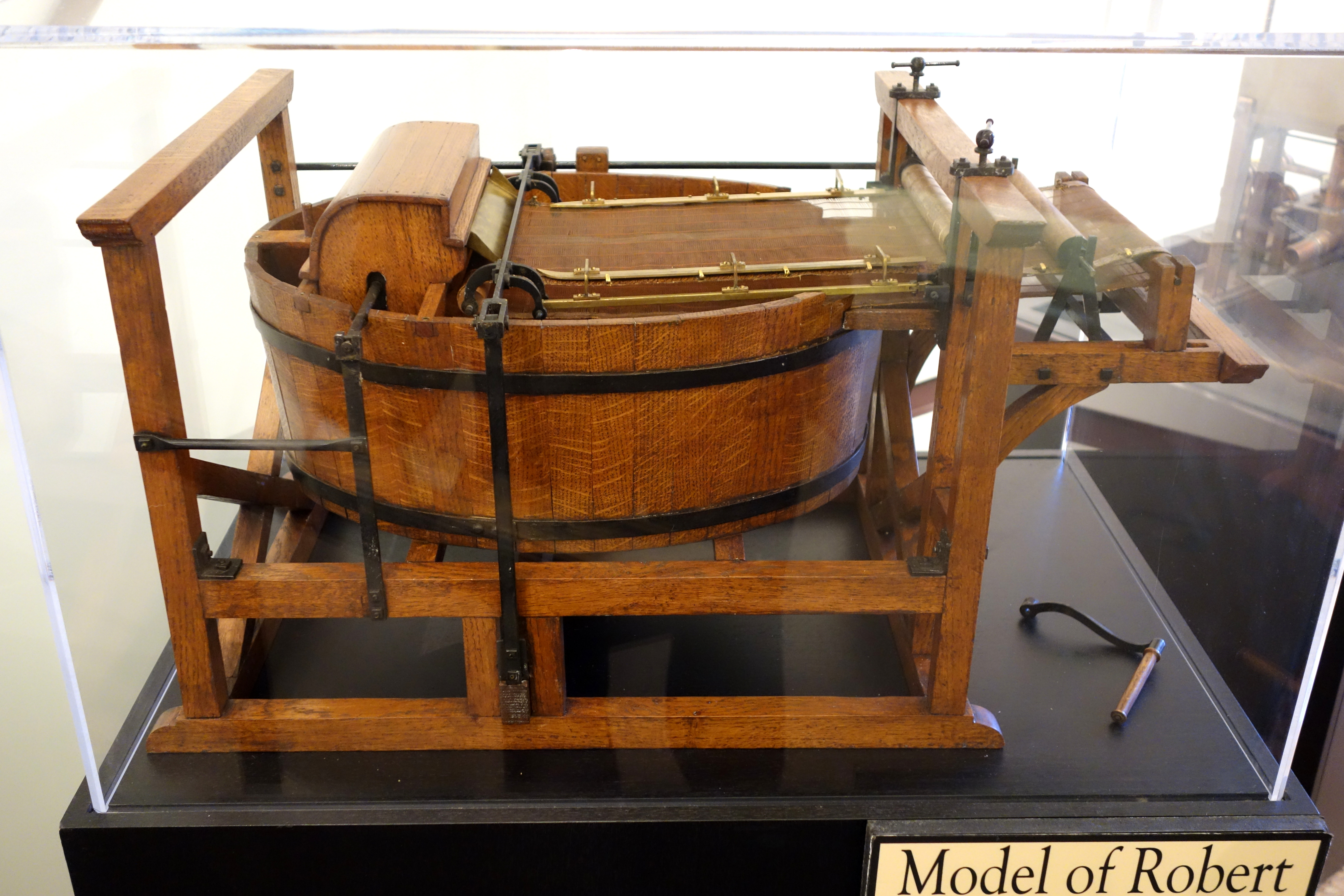 Exhibit in the Robert C. Williams Paper Museum, Atlanta, Georgia, USA. This work is old enough so that it is in the public domain.